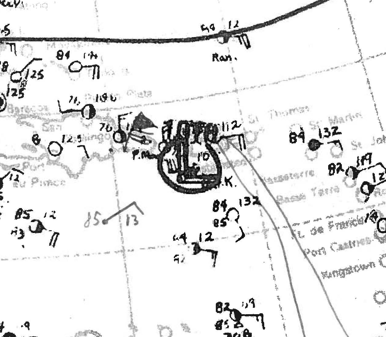 Surface analysis of Hurricane Nine of the 1932 Atlantic hurricane season after making landfall on Puerto Rico.